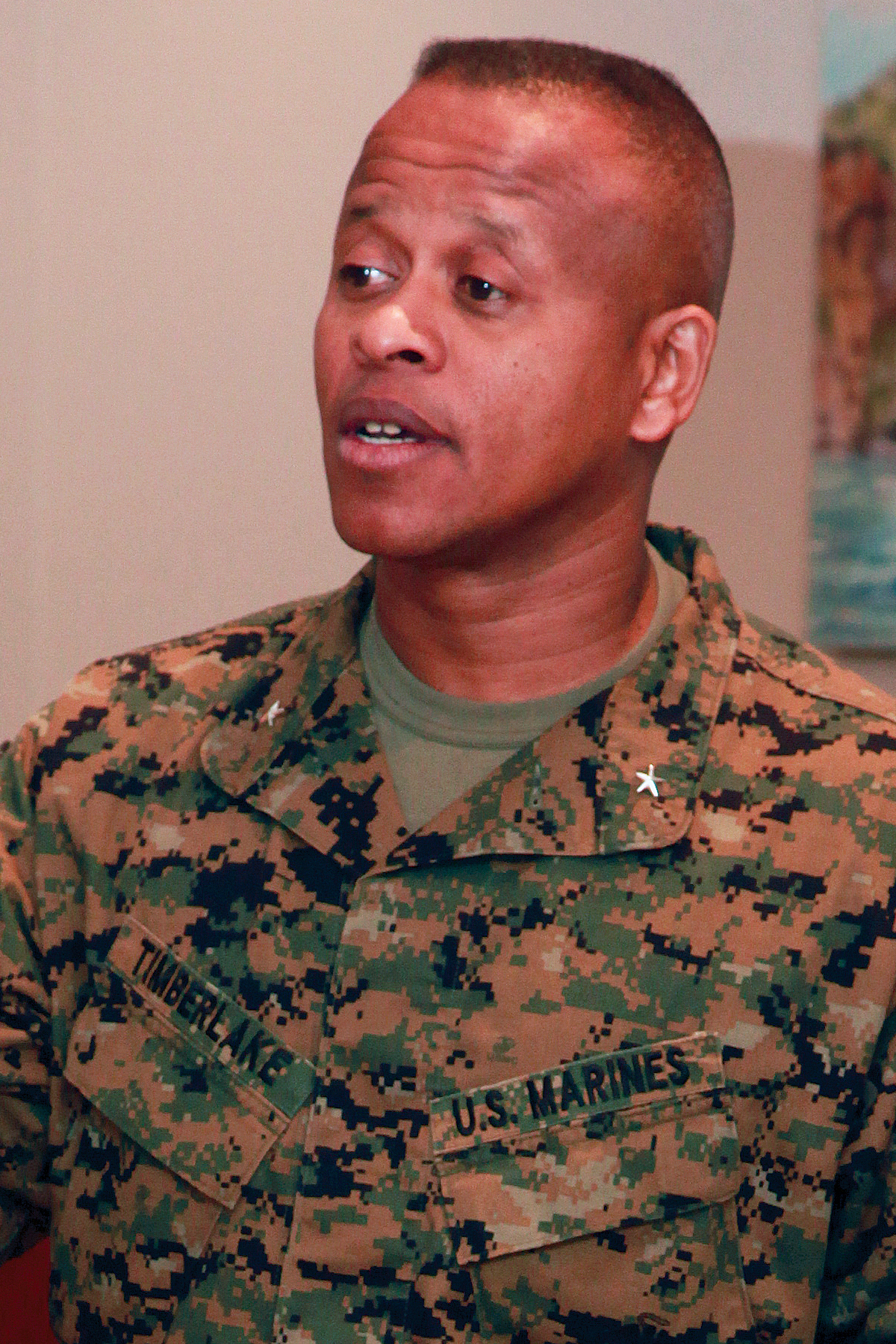 Brig. Gen. Craig Q. Timberlake speaks to Marine Corps Installations Pacific and III Marine Expeditionary Force leaders about the annual active-duty fund drive in support of the Navy-Marine Corps Relief Society during the drive’s kick-off breakfast March 7 at the Ocean Breeze on Camp Foster. The fund drive began March 8 and will last until April 5, with the goal of making it easy for Marines and sailors to donate money for fellow service members in financial need. NMCRS uses donations to provide services such as interest-free loans, grants, scholarships and financial counseling to Marines, sailors and their families. Timberlake is the commanding general of 3rd Marine Expeditionary Brigade and deputy commanding general of III Marine Expeditionary Force.